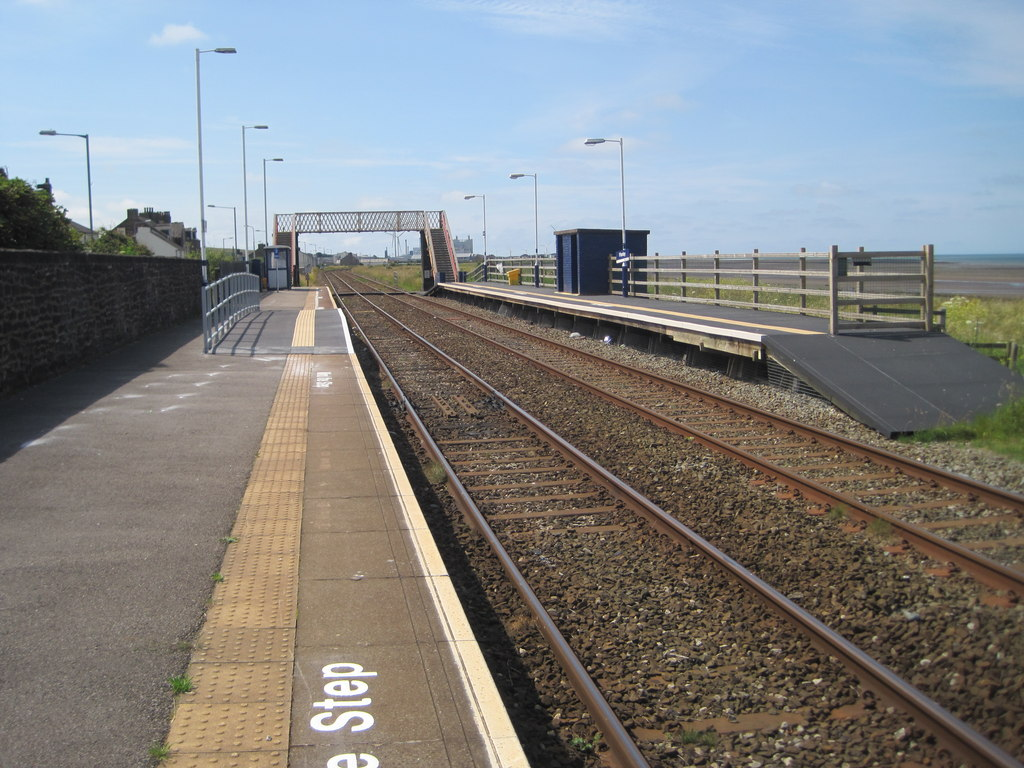 Flimby railway station looking south west to Siddick and Barrow